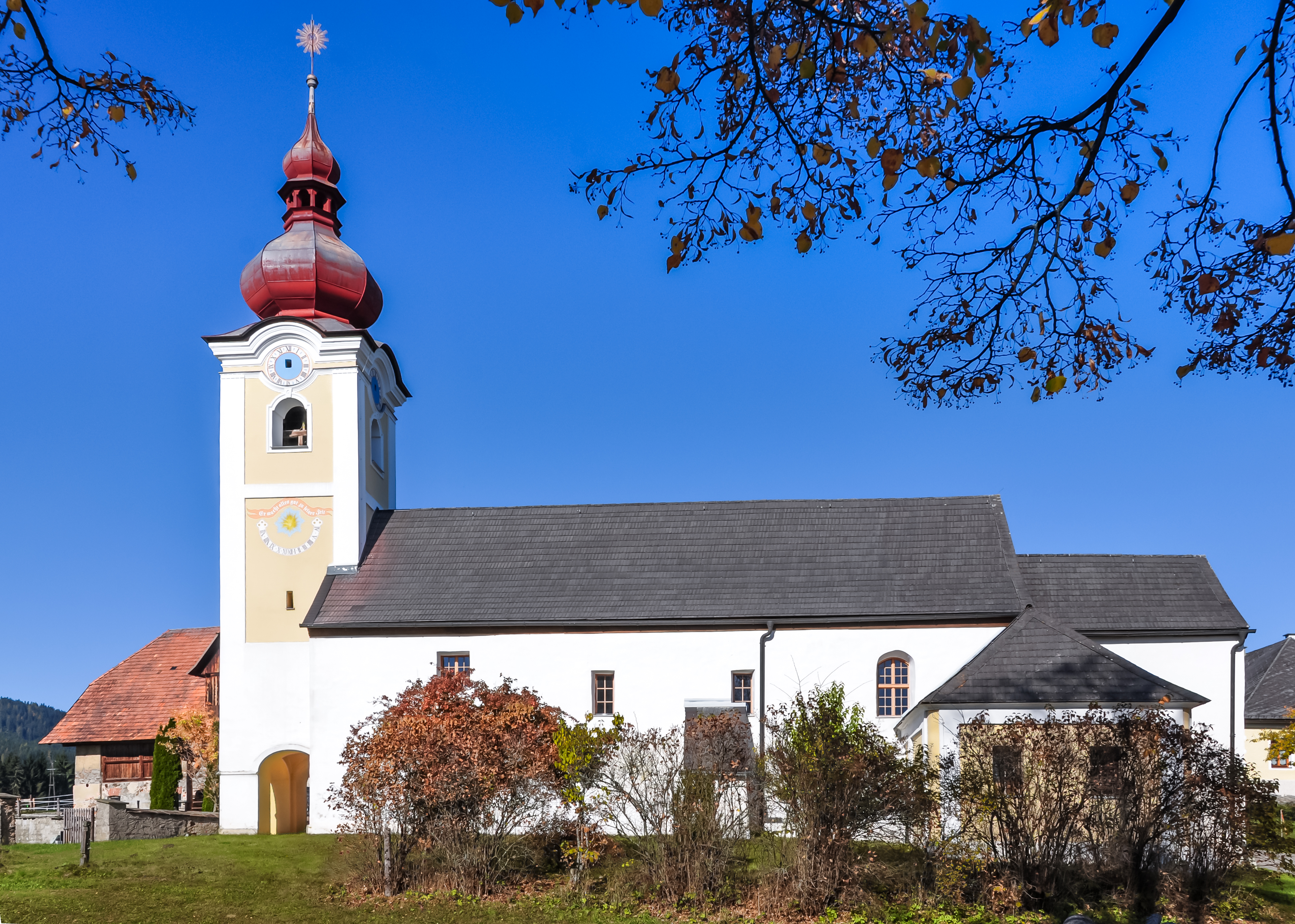 Parish church Saint James the Greater in Sankt Jakob #3, municipality Straßburg, district Sankt Veit, Carinthia, Austria, EU